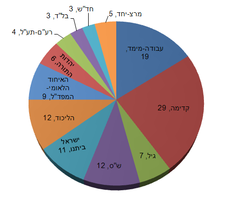 Pie chart of Israeli 2008 elections. (hebrew)